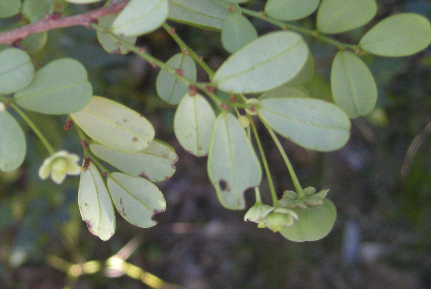 Sauropus albiflorus fruit, Mount Archer national Park, Rockhampton, Queensland.